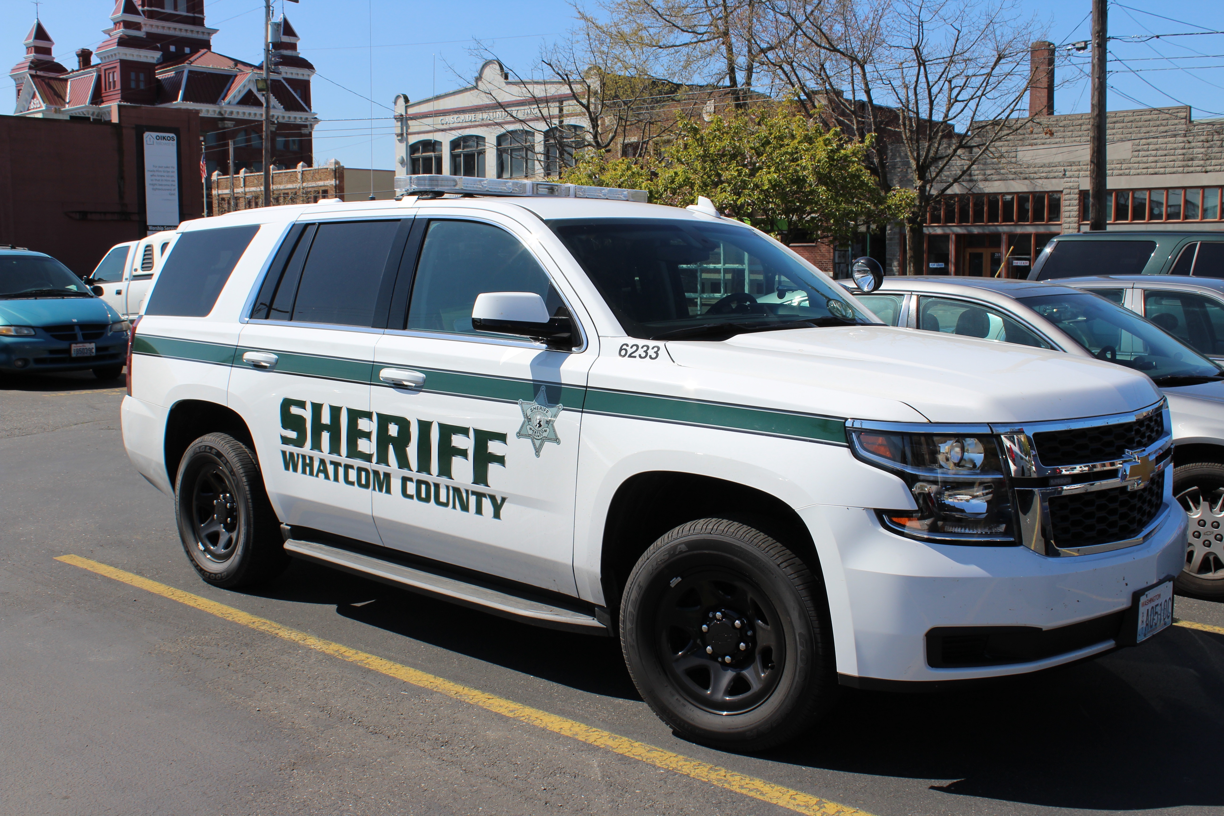 Whatcom County Sheriff: 2015 Chevy Tahoe